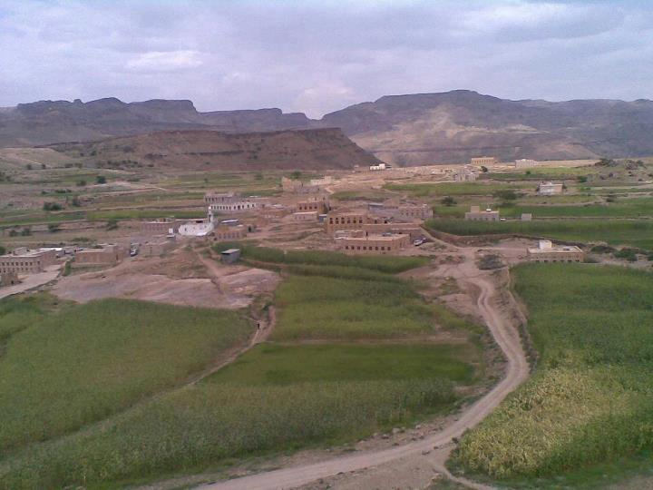 Tariadah Alrriashia